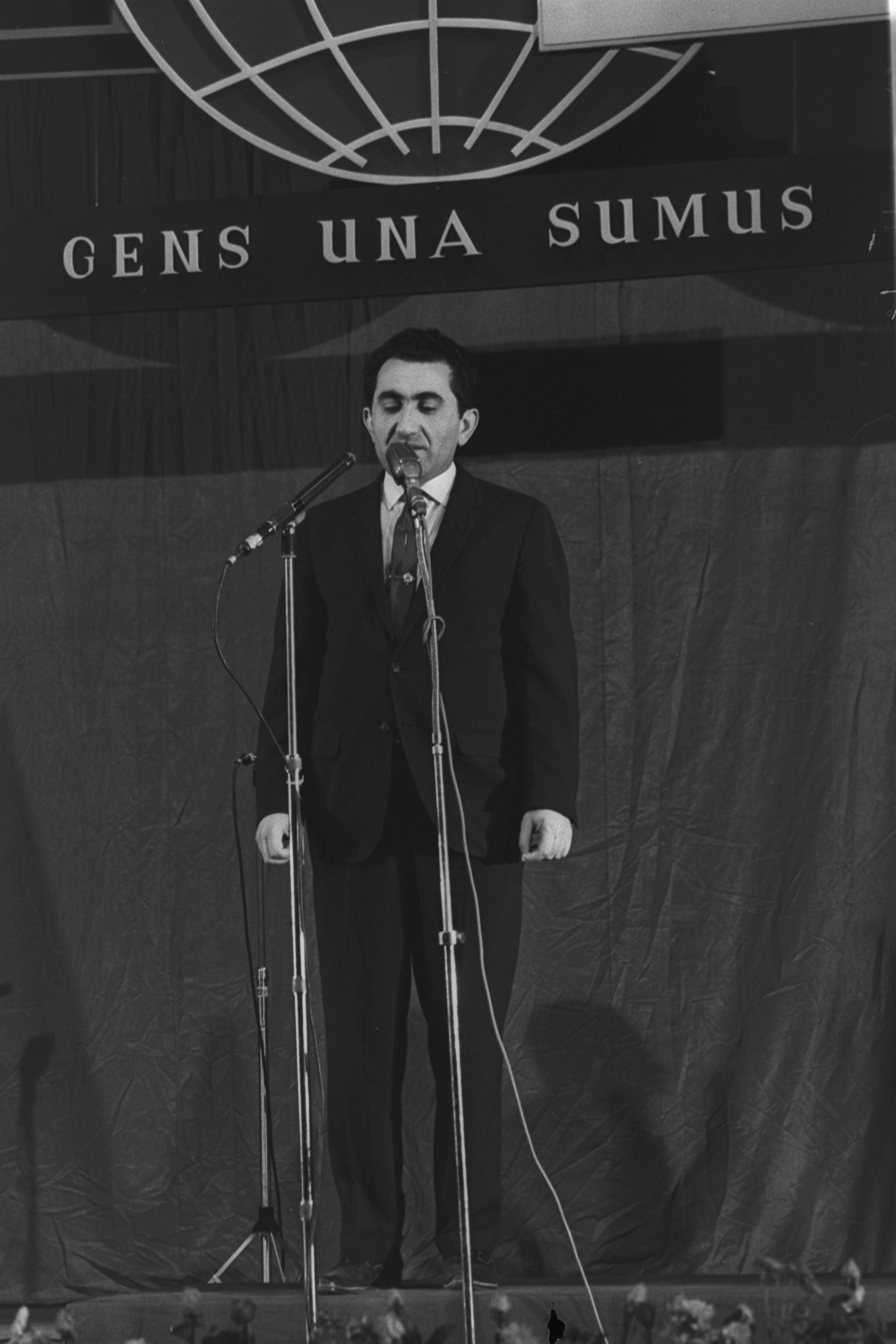 THE HEAD OF THE USSR CHESS DELEGATION TAKING THE OLYMPIC OATH, DURING THE OPENING CEREMONY OF THE INTERNATIONAL CHESS OLYMPIAD AT TEL AVIV'S "HABIMA" THEATRE.